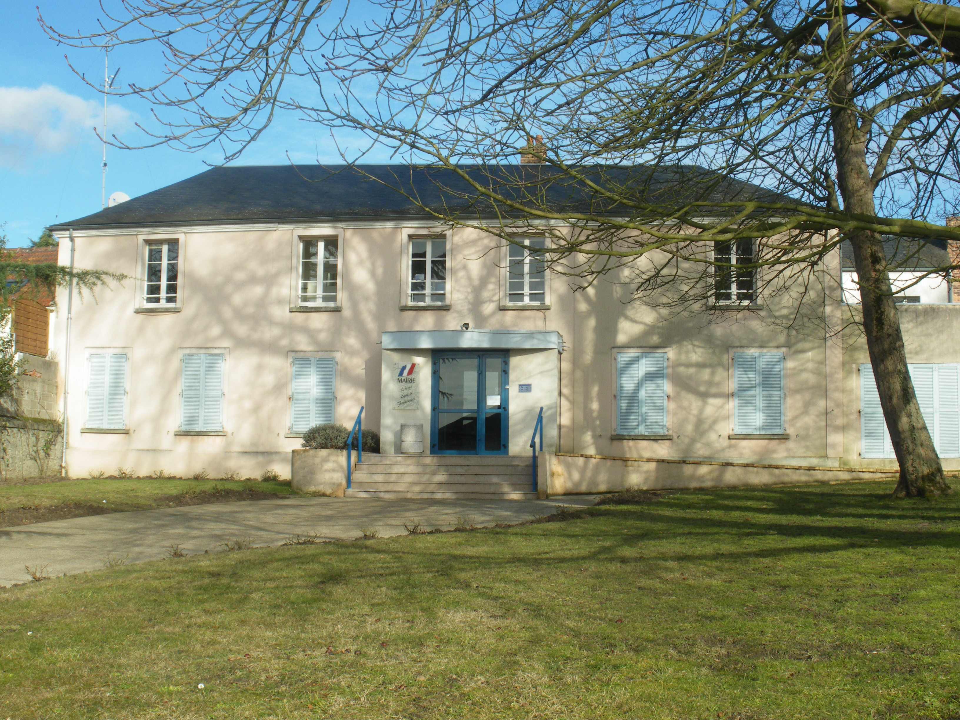 Bruyères le Chatel's Town Hall, Essonne, France